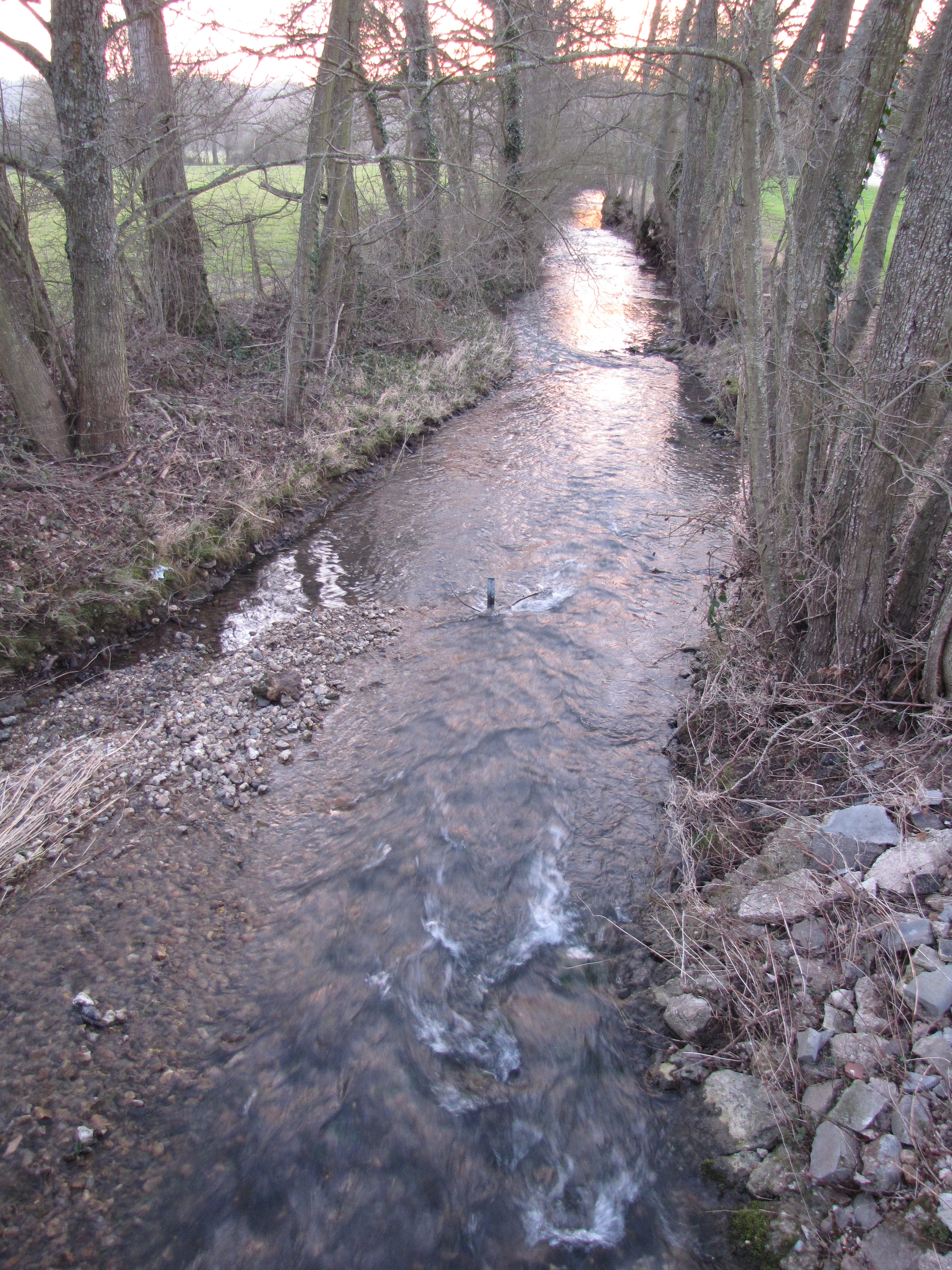 The Péruseau at its crossing the D950 road near the hameau des Pérusots, south of Charny, Yonne, France. Looking downstream. Photo taken on March 4, 2013.